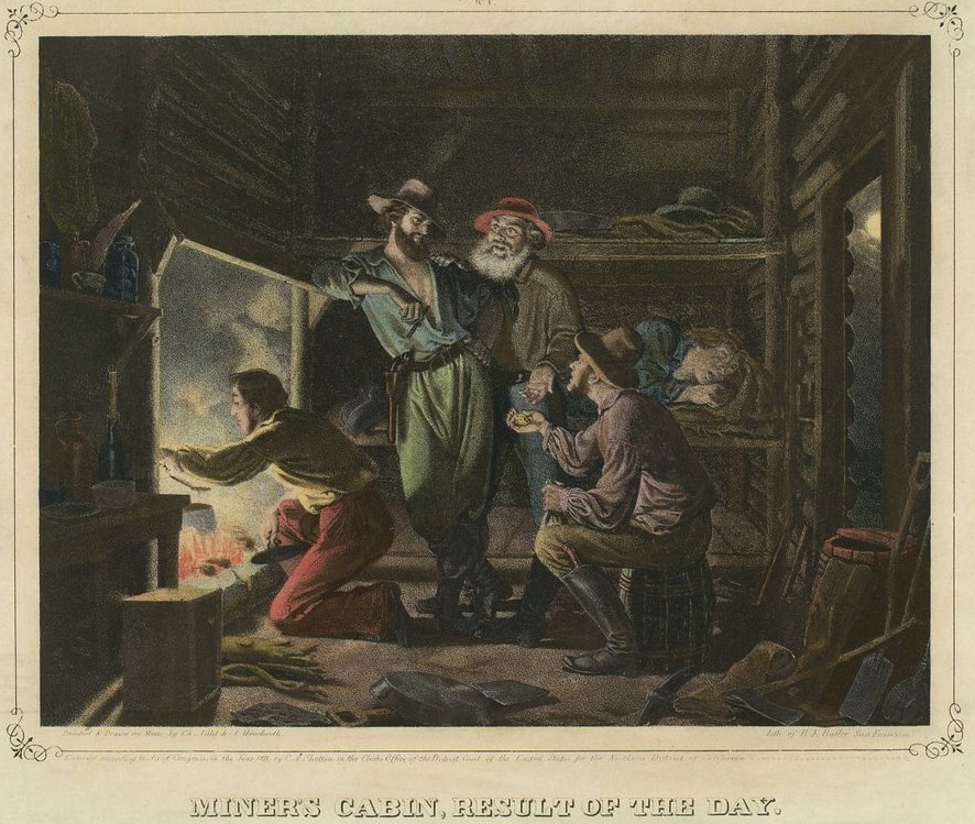 Frederick August Wenderoth and Charles Nahls, lithograph "Miner's Cabin. Result of the Day", 1852